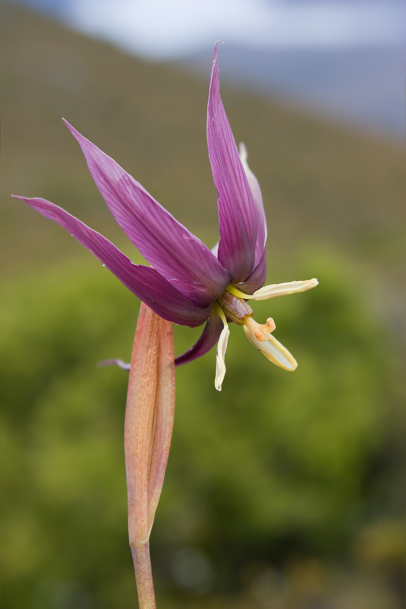 Isophysis tasmanica, Mt Eliza, Southwest National Park, Tasmanian Wilderness World Heritage Area, Tasmania, Australia.